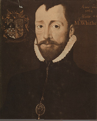 A painting of Thomas Whythorne, created prior to 1588.